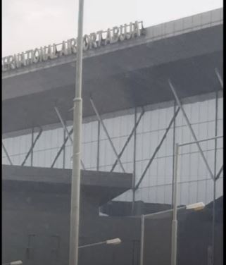 Nnamdi Azikiwe International Airport Up close shot of New International Terminal.